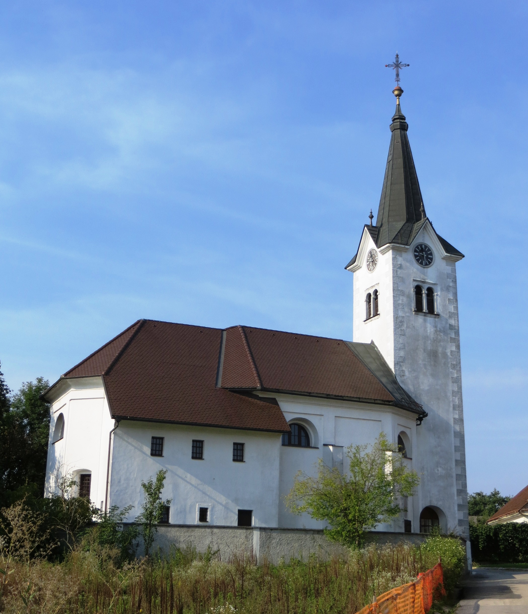 Assumption Church in Trboje, Municipality of Šenčur, Slovenia